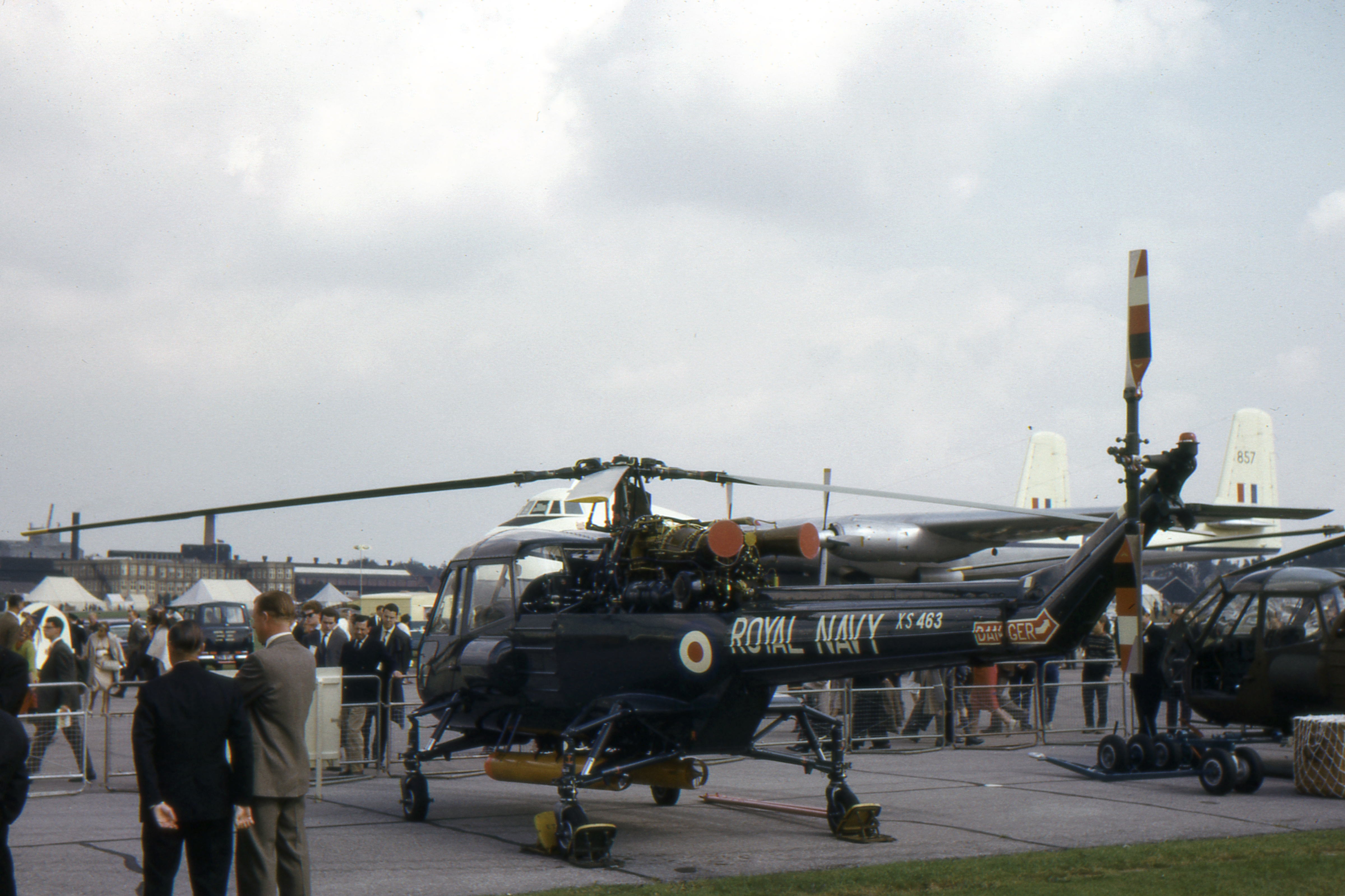 Westland Wasp HAS1 first prototype at SBAC show Farnborough, 8 September 1962. The aircraft did not fly until 28 October 1962.